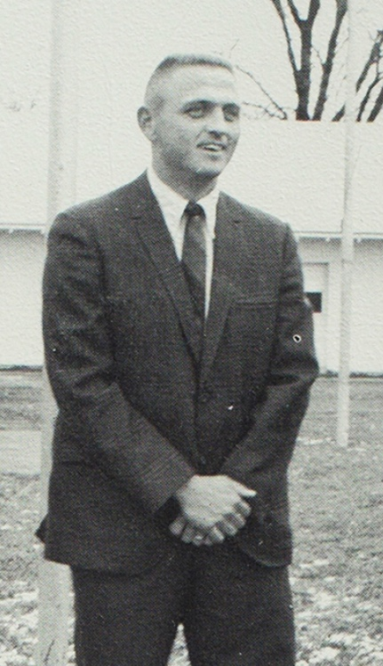 Truman State University football coach Marv Braden